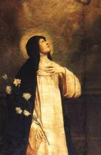 Saint Stephana de Quinzanis, painting, probably 18th century